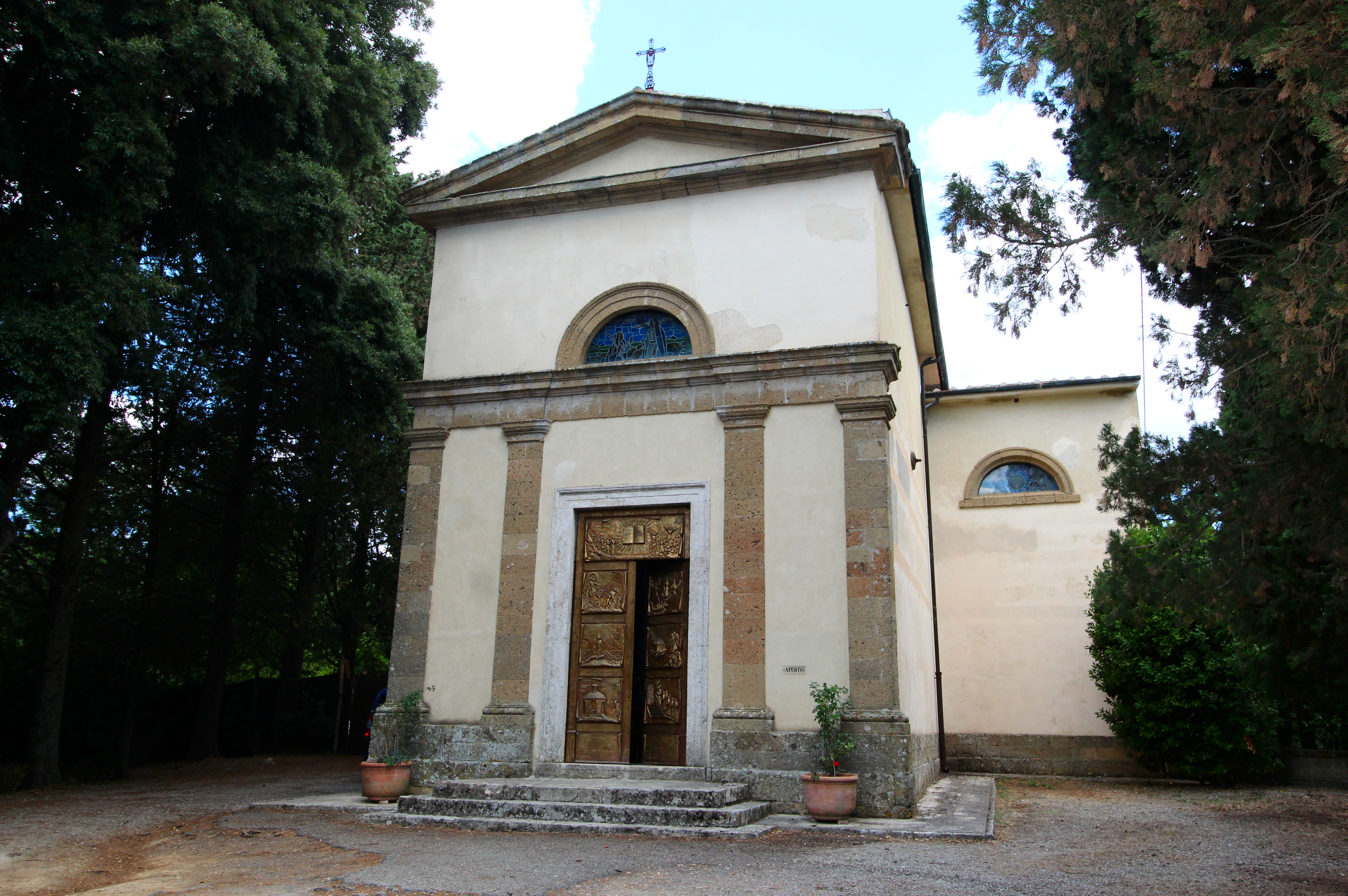 Sanctuary Madonna del Cerreto, Cerreto, hamlet of Sorano, Province of Grosseto, Tuscany, Italy